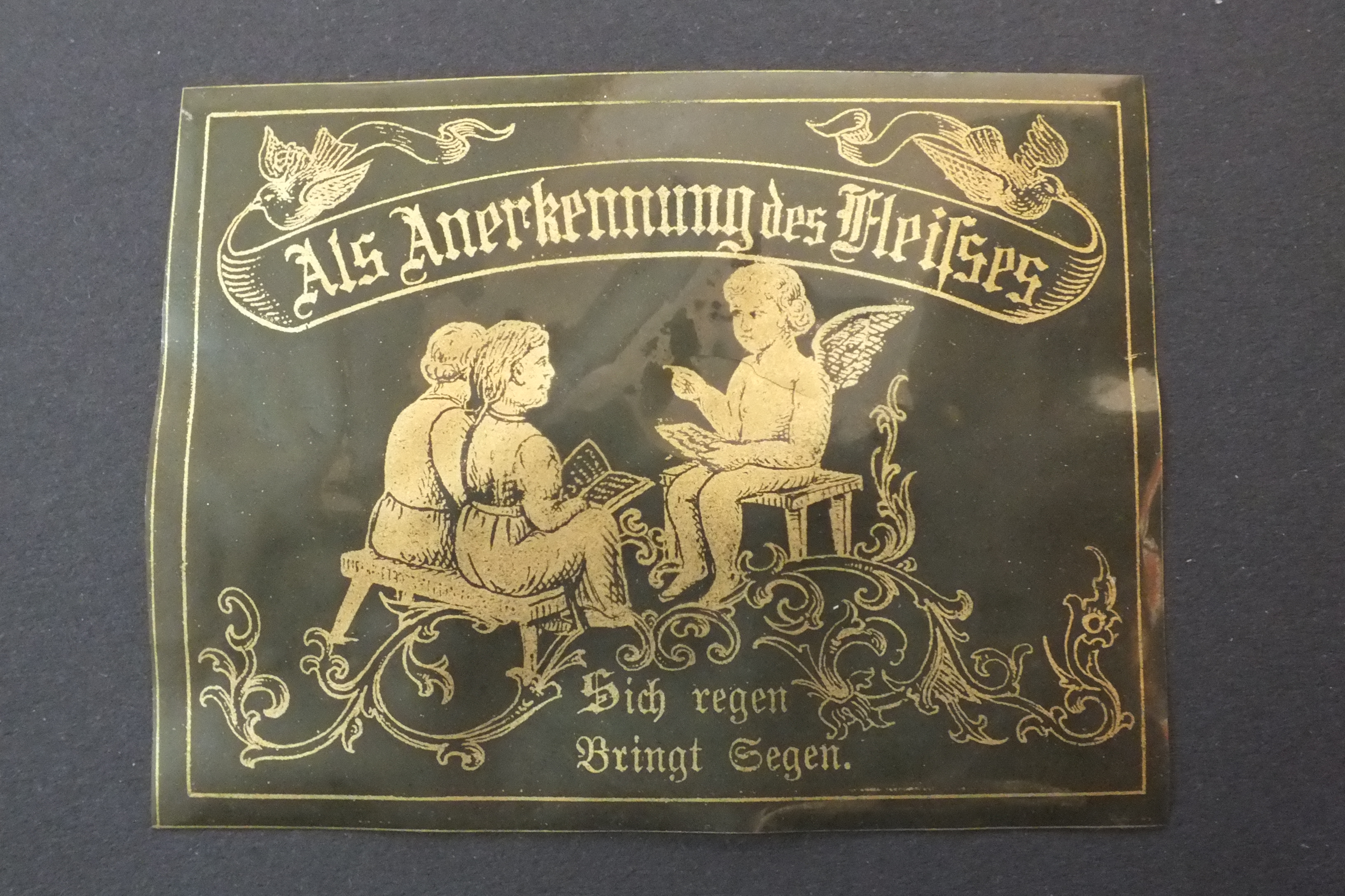 Gelatine picture, Germany, end of 19th century, rectangular. green, probably coloured gelatine (in earlier times such pictures were made of the swim bladder of beluga), body heat makes it roll up when put on palm or breathed upon, golden print: Als Anerkennung des Fleißes. Sich regen bringt Segen. (In recognition of your diligence. Hard work brings its own reward), used to reward school children.